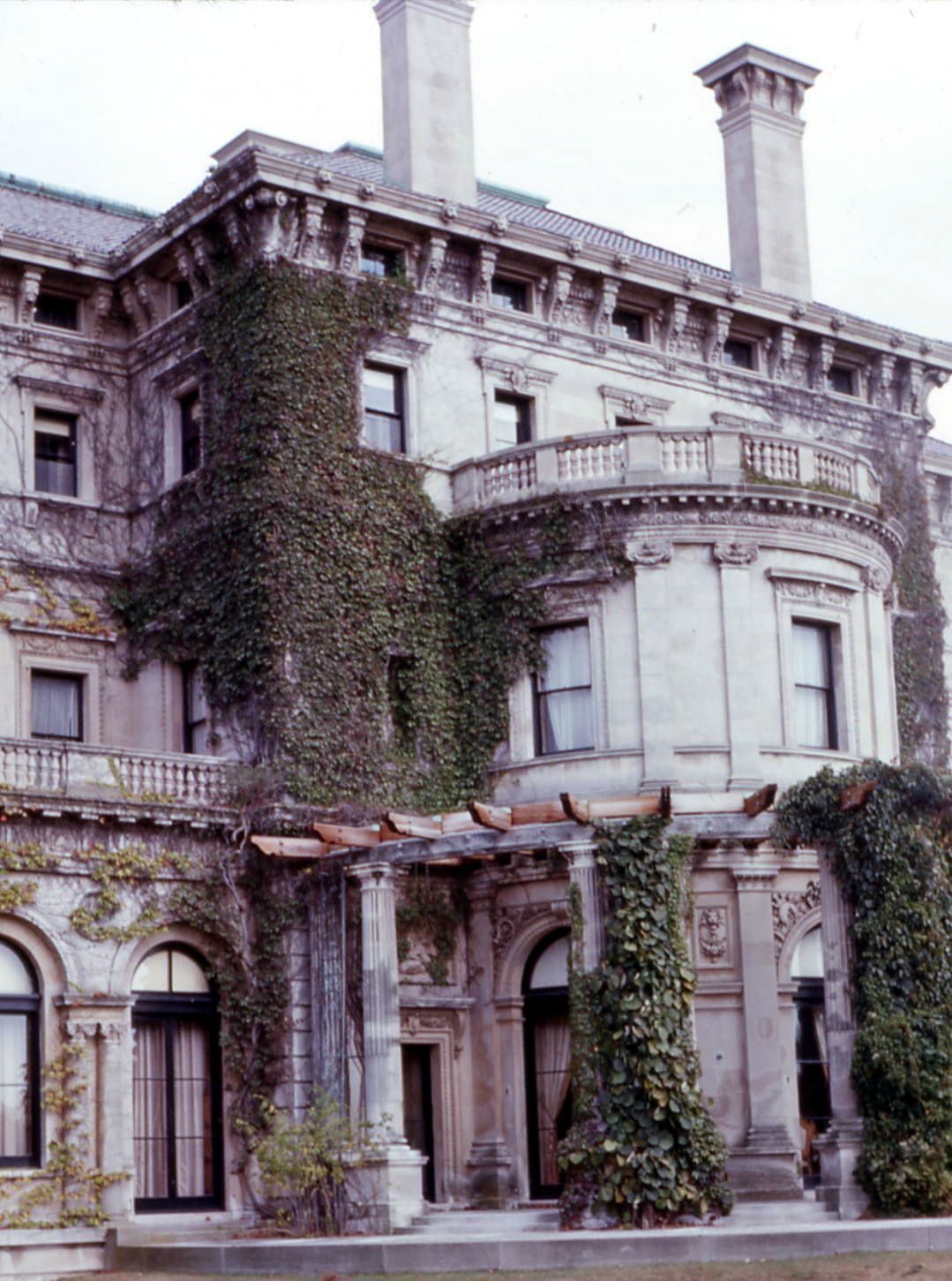 "The Breakers", a mansion in Newport, Rhode Island.